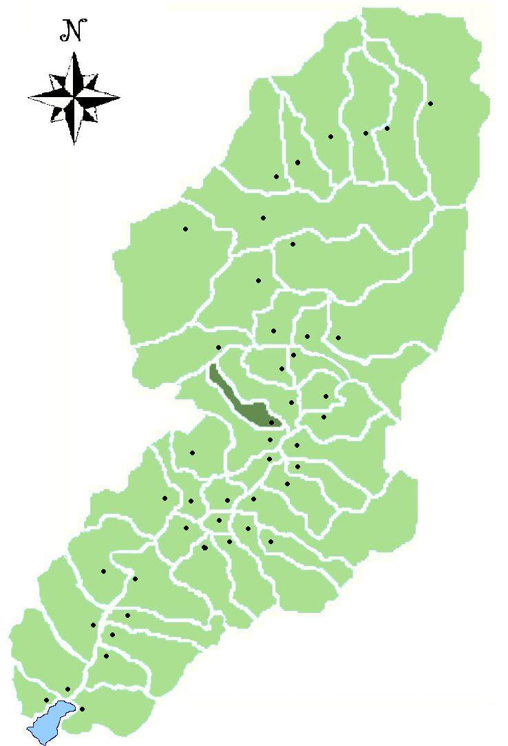 Map of the Comune di Ono San Pietro, Valle Camonica